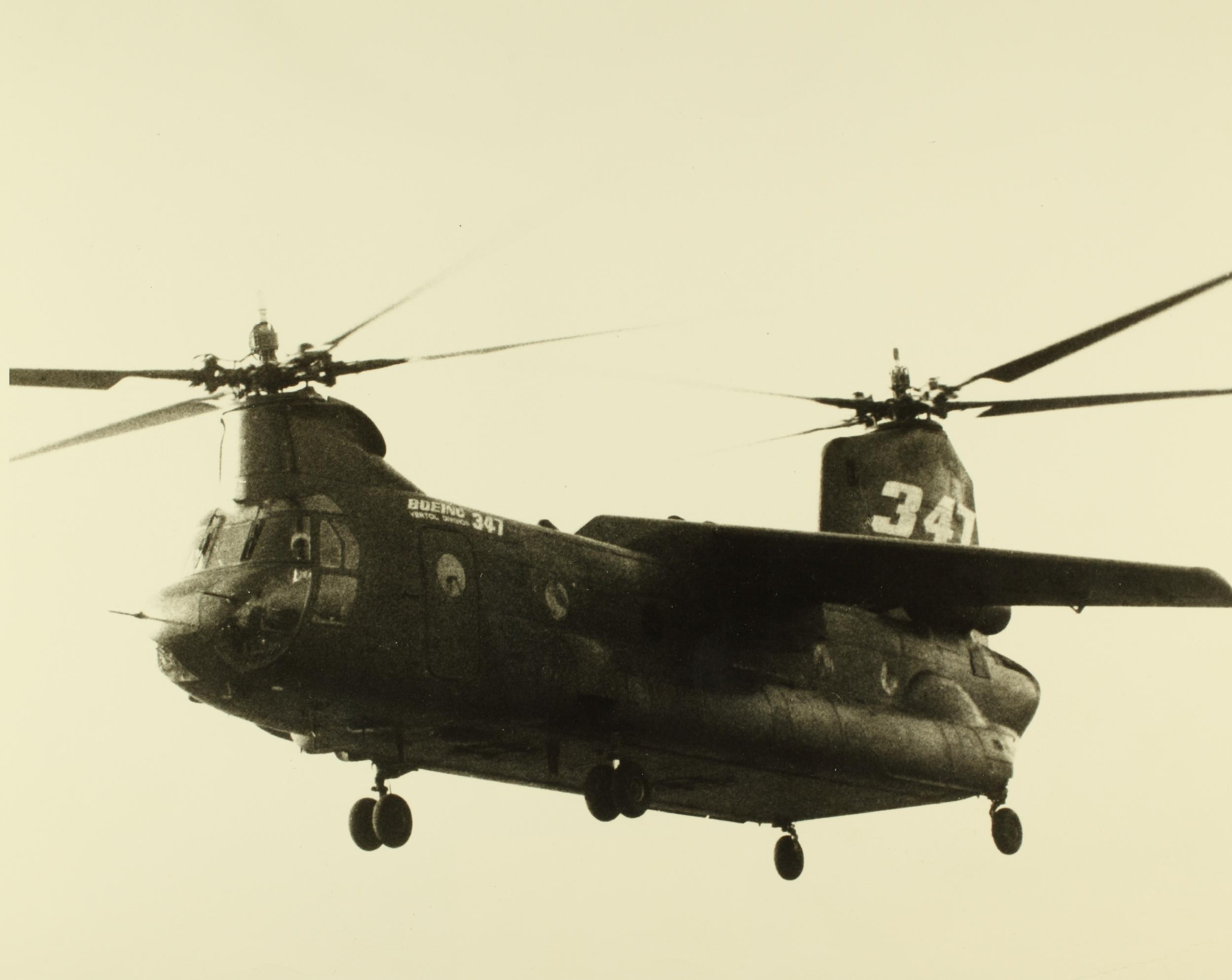 Boeing model 347 Advanced Technology Transport Helicopter.